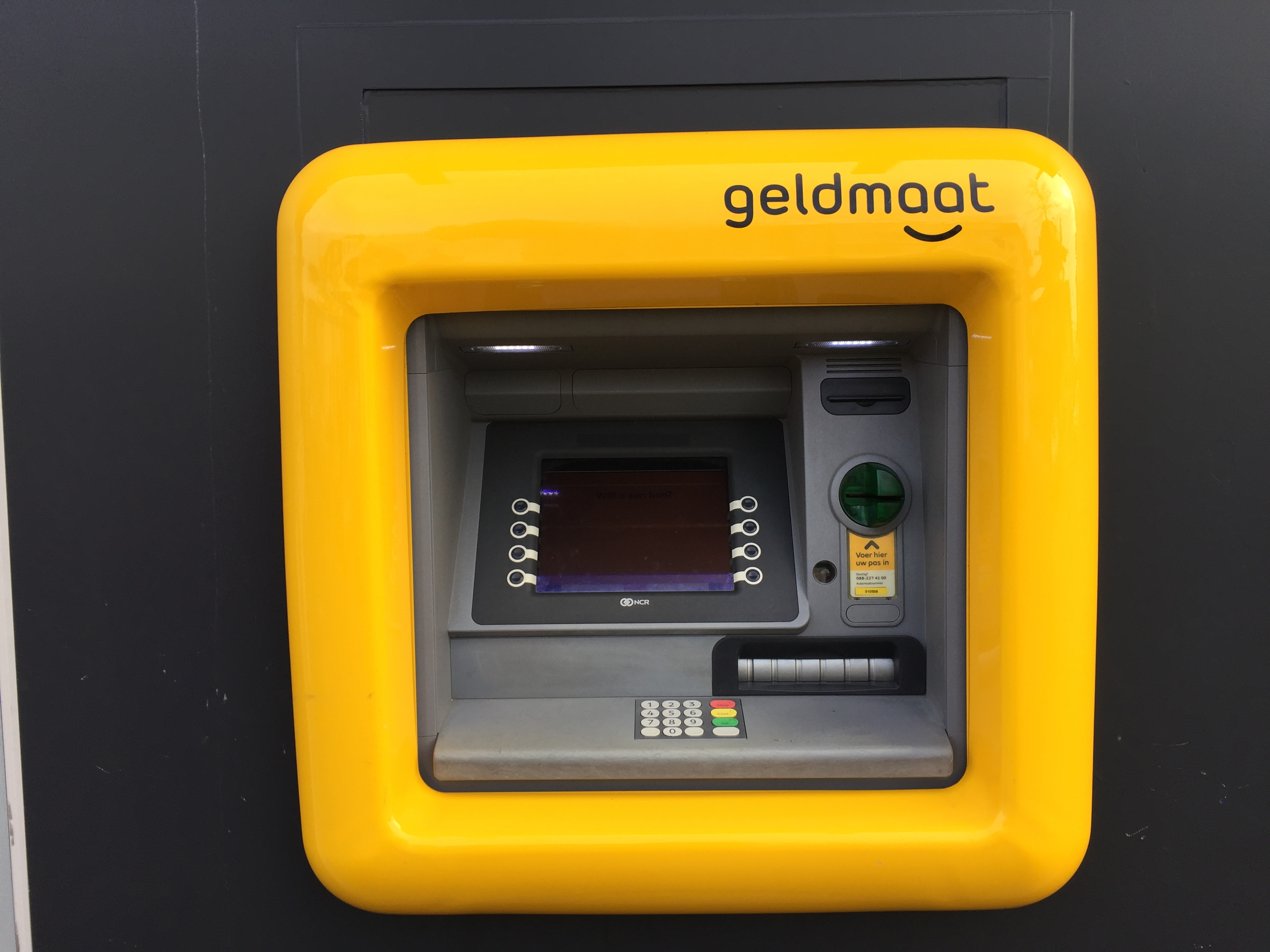 Geldmaat (ATM) in Honselersdijk (Westland, the Netherlands), 2020